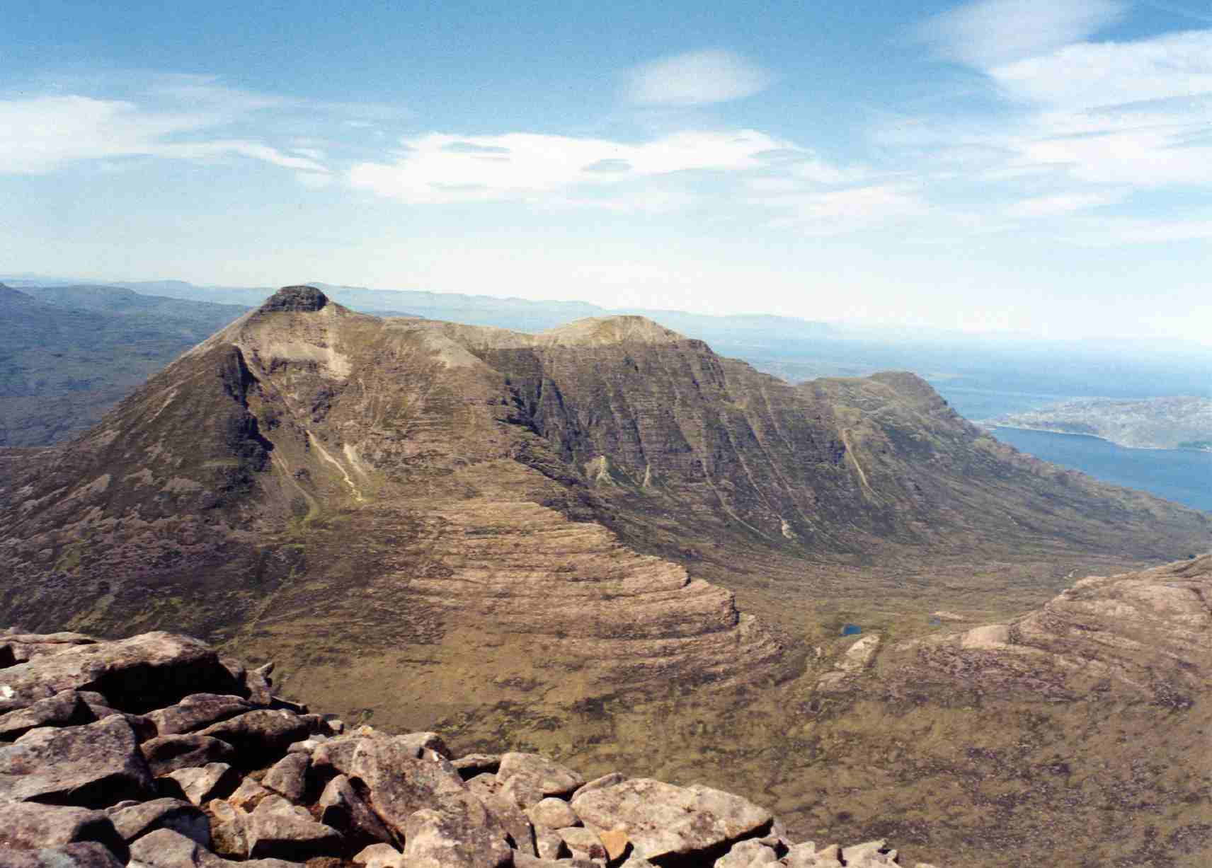 Personal photograph taken by Mick Knapton